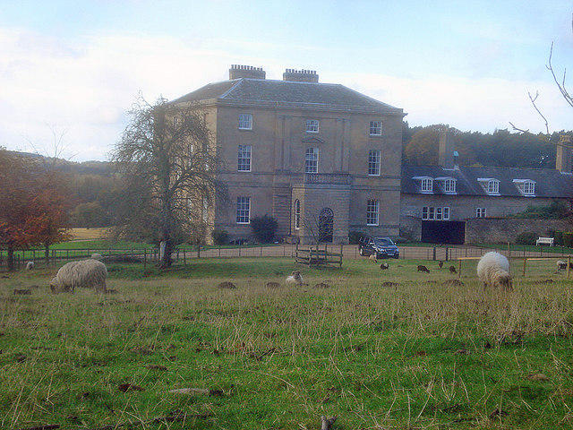 Papplewick Hall Looking north-west from the road. This Grade I Listed house was built (or rather re-built) in 1787 for the Hon. Frederick Montagu, who was Lord of the Treasury. It is noted for the fine plasterwork, elaborate staircase, wooden furniture and large collection of bird's eggs. The house, garden and park are regularly open to the public.